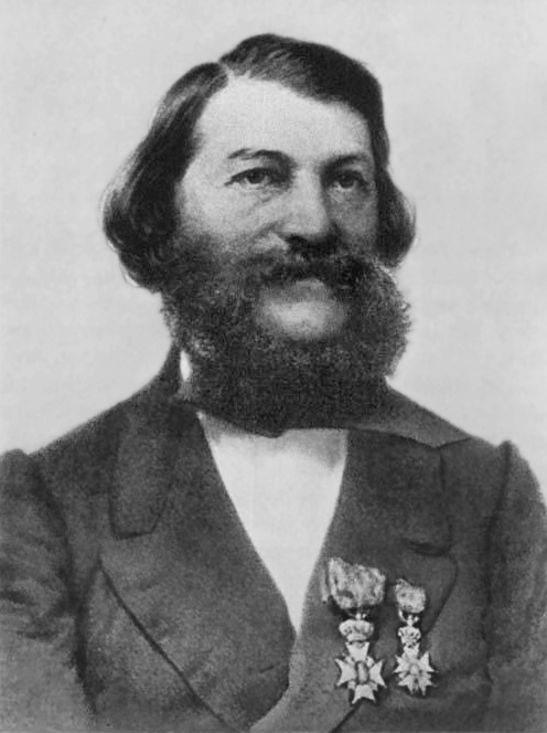 born 9 June 1813 as Hermann Lewy in Breslau (now Wrocław), died August 1, 1878 in Bex, canton of Vaud was a German pathologist and natural scientist.